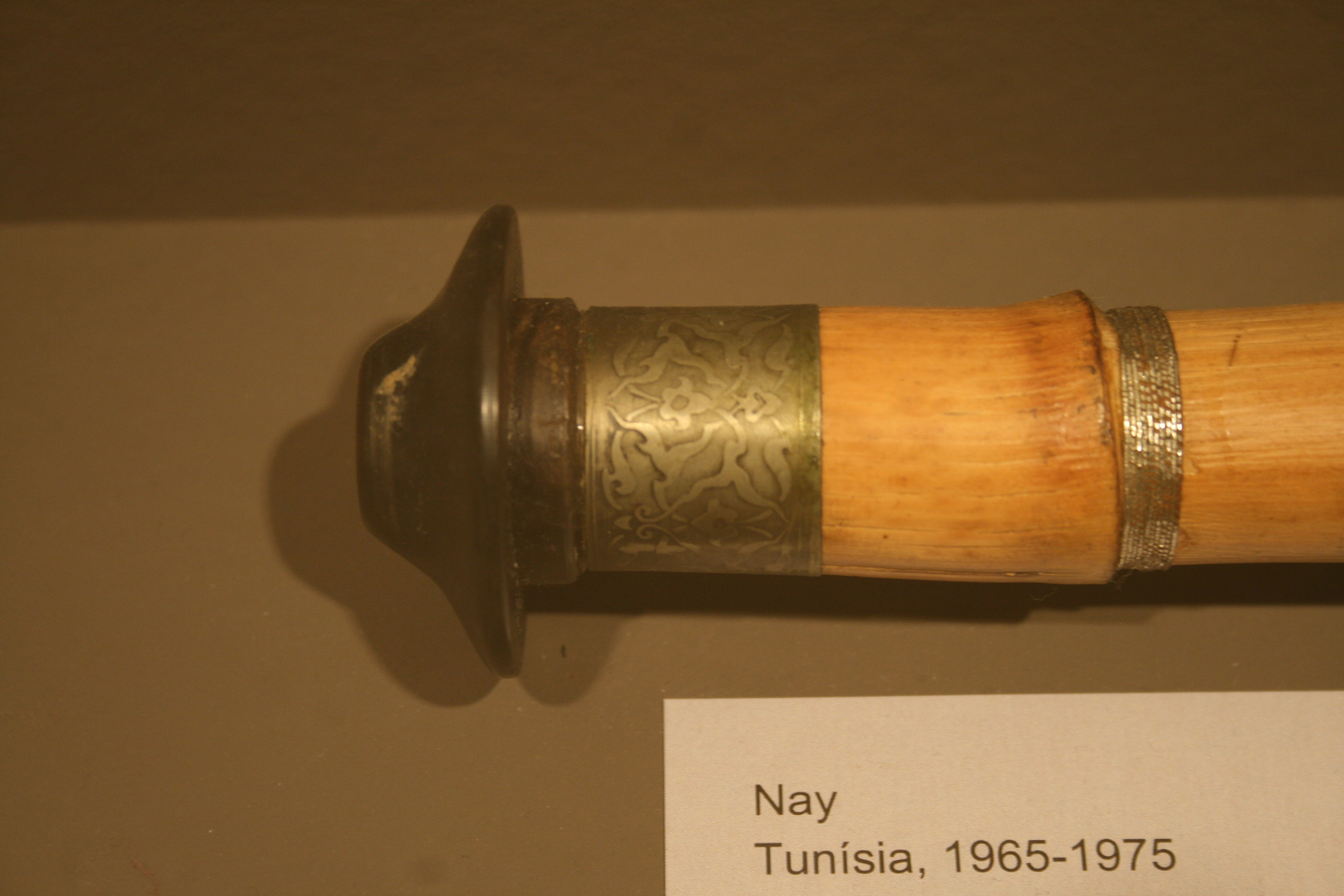 Detail of a Nay from Tunisia. Ca. 1965-1975